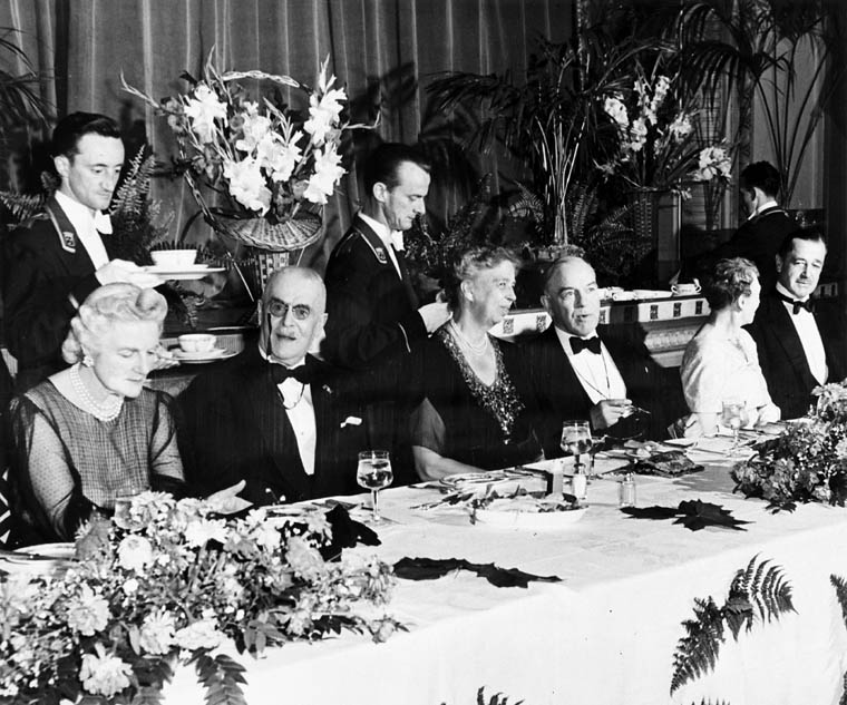 Title Prime Minister's Reception at the Chateau Frontenac during the Octagon Conference. Place Québec, Quebec. Place of creation No place, unknown, or undetermined Scope and content (L-R): Mrs. Clementine Churchill, Sir Eugene Fiset, Mrs. Eleanor Roosevelt, Rt. Hon. W.L. Mackenzie King, Lady Fiset, Hon. Ray Atherton